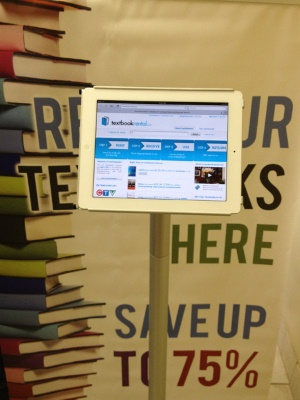 Kiosk stand of textbookrental.ca